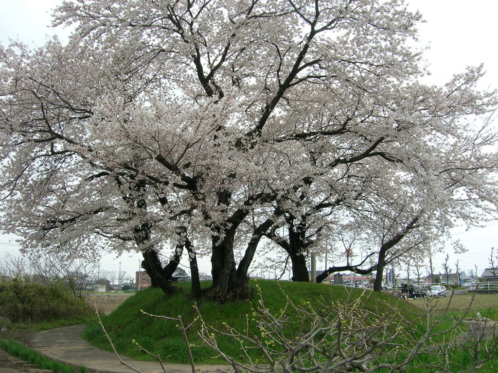 Sakurazuka kofun. Loc: Őguchi town, Niwa District, Aichi Prefecture, Japan. 桜塚古墳 撮影場所 愛知県丹羽郡大口町